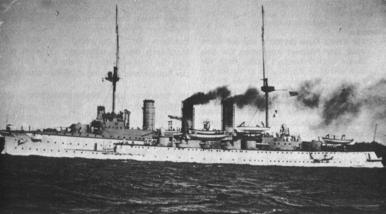 SMS Freya (launched 1897) ca. 1910